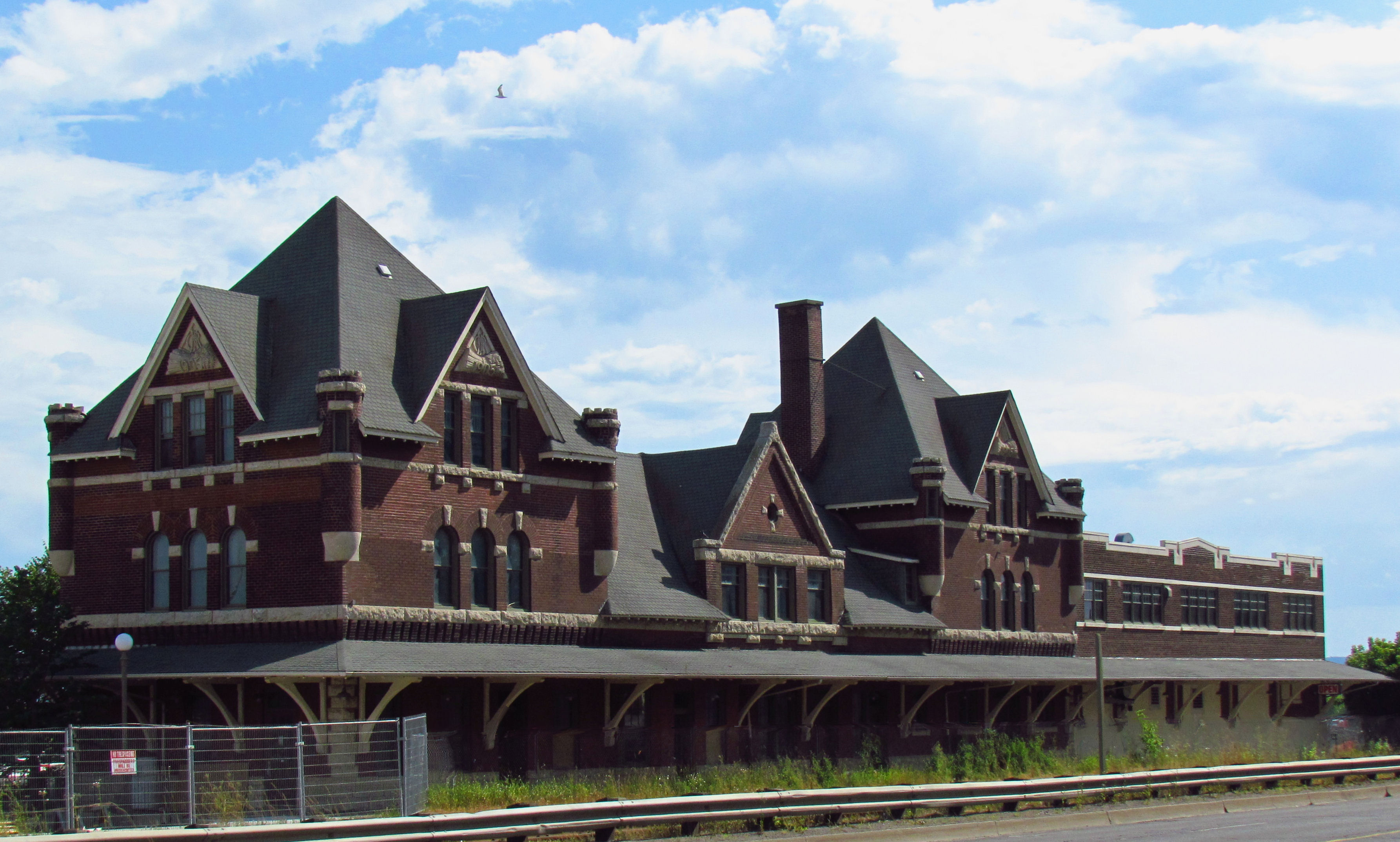 C.N. Railway Station, Thunderbay, Ontario, Canada